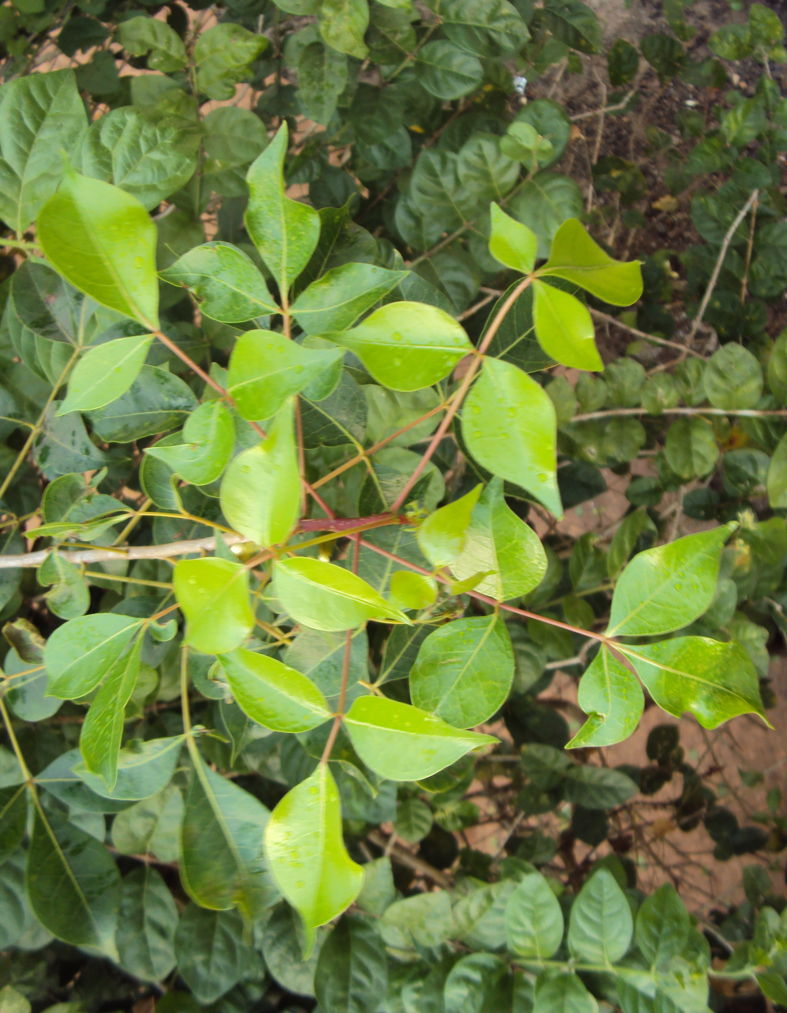 Commiphora caudata leaves - ഇടിഞ്ഞിൽ